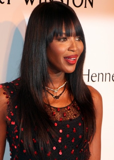 Naomi Campbell at the Baile da AmfAR 2015